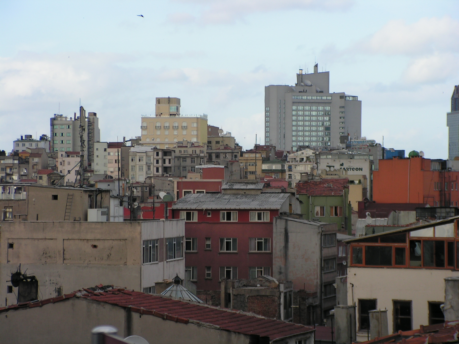 Gecekondu neighbourhood in Seyrantepe, Istanbul